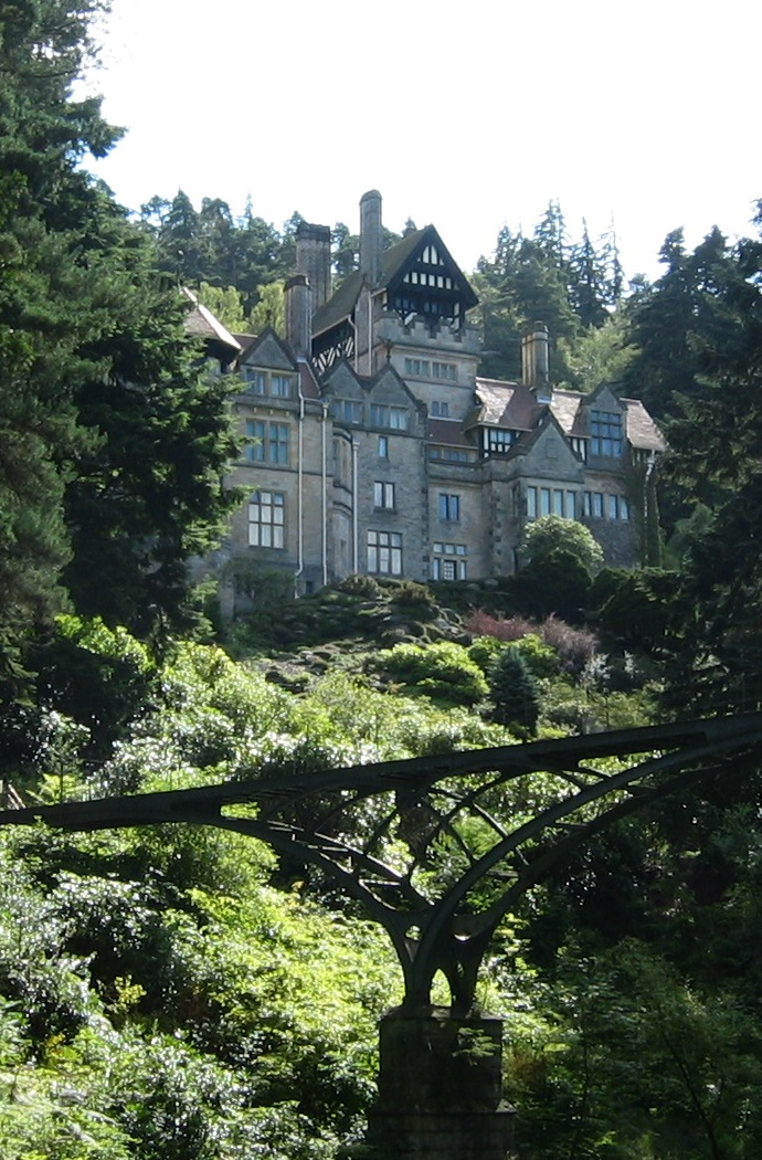 Cragside House, National Trust property in Northumberland, England. Picture taken by Dave Sumpner